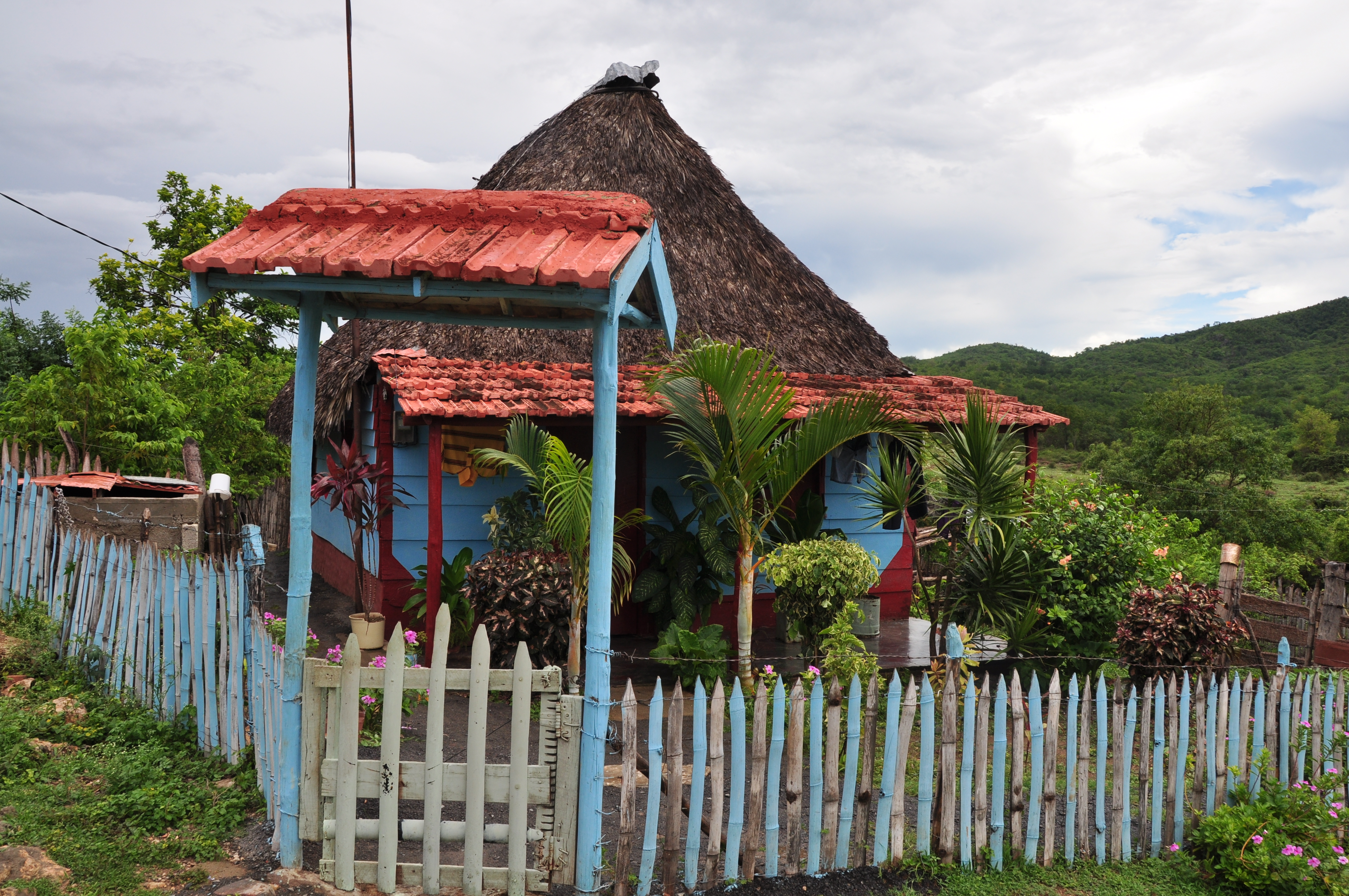 Traditional dwelling house in a village in Cuba, somewhere in the countryside betwwen Trinidad and Cienfuegos.